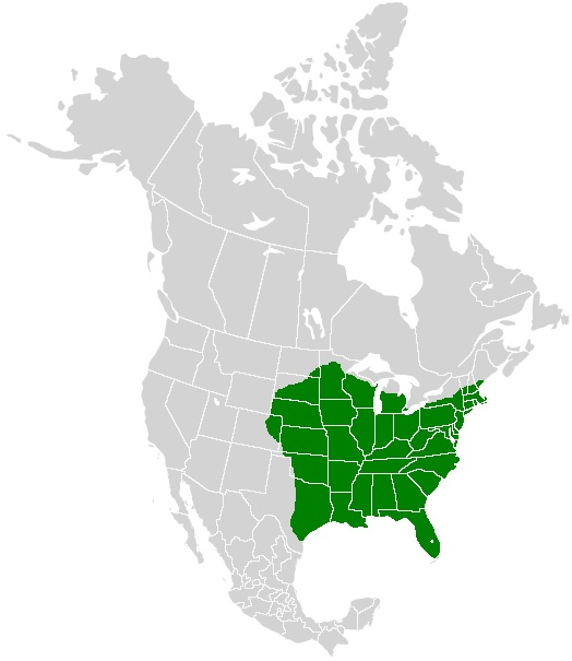 A range map showing the distribution of the Eastern Tiger Swallowtail (Papilio glaucus)